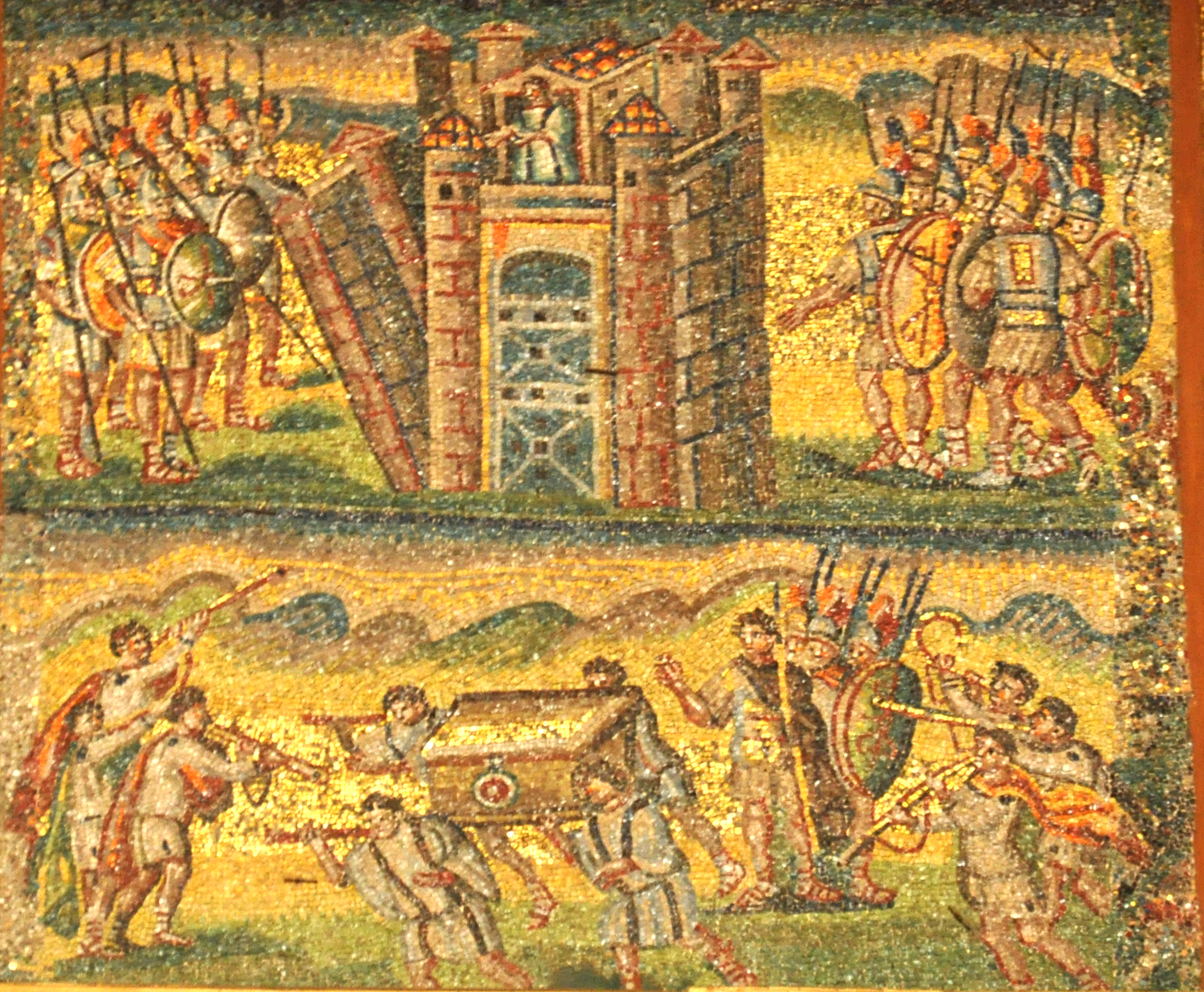 Bottom: the Ark of the Covenant is carried around the walls to the sound of trumpets. Top: The Israelites take the city, helped by Rahab, who is seen on the battlements ( Joshua 6:12-19).